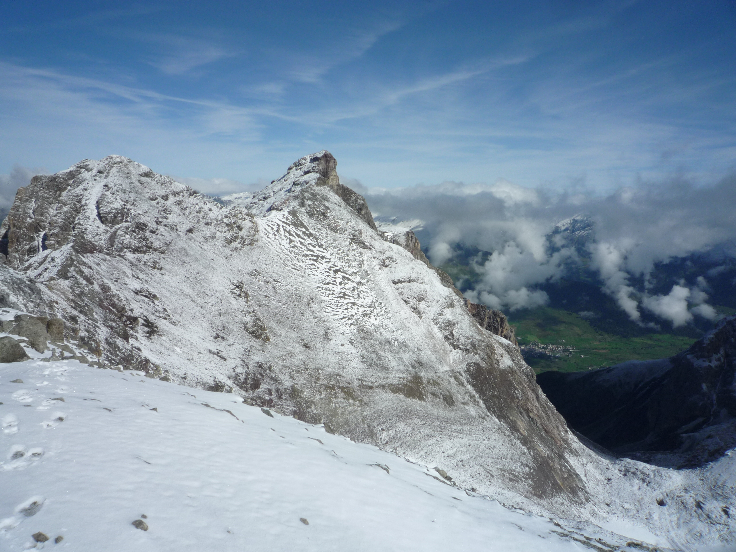 Piz Lischana seen from the south